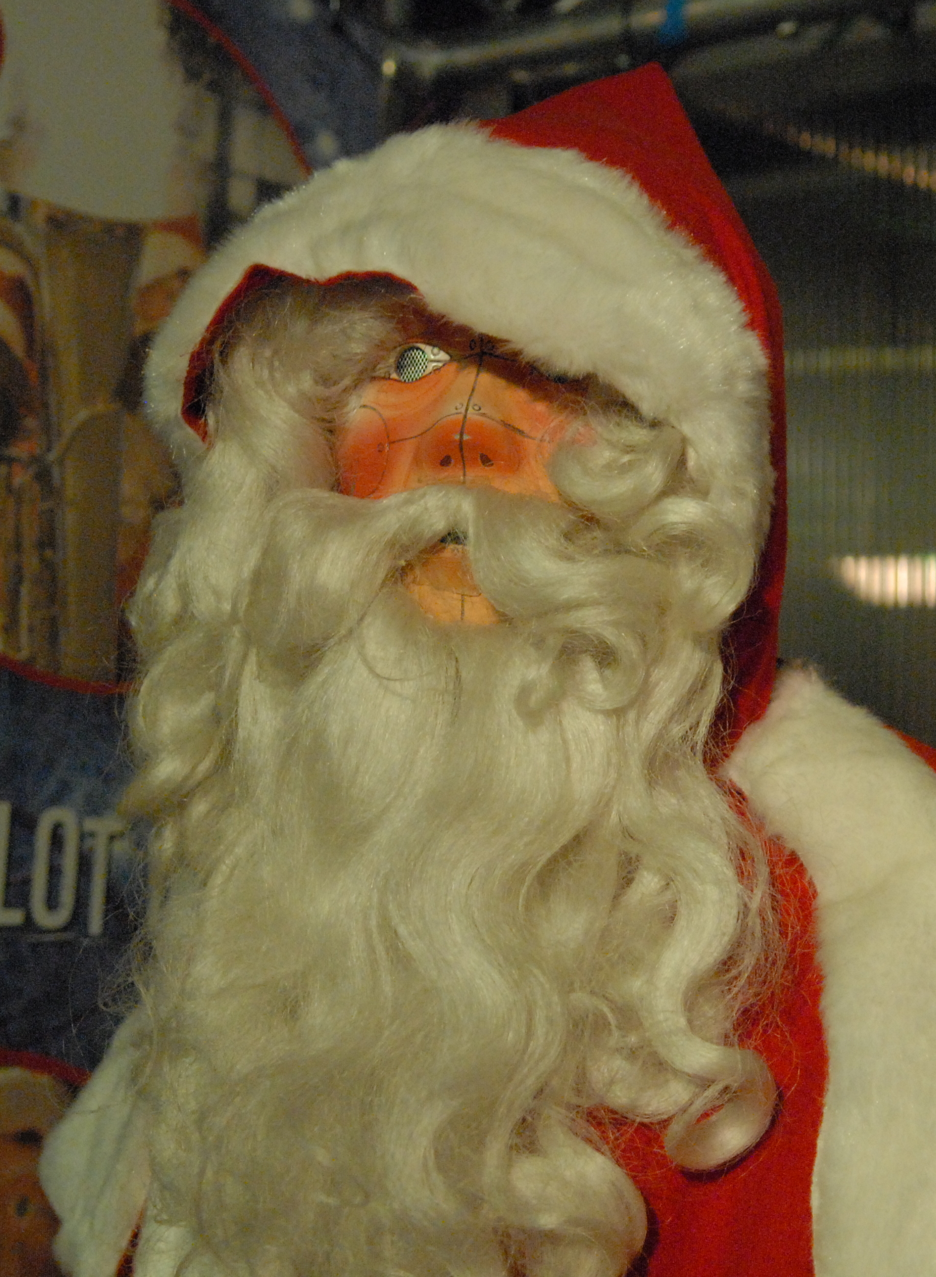 DSC_1000 Doctor Who Experience